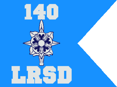 guidon of Long Range Surveillance Detachment, 140th Military Intelligence Battalion (United States)